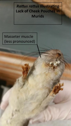 lack of cheek pouch in Rattus rattus, a murid